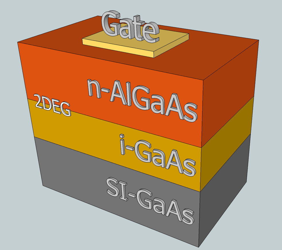 heterostructure with a 2DEG